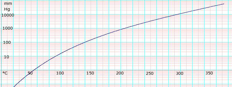 Subject: log plot of Ethylene glycol vapor pressure as a function of temperature. Prepared with: plotting script and Gimp 2.2 Status: Released to public domain